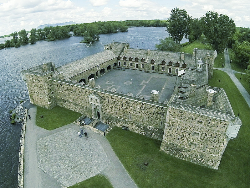 Fort Chambly, Chambly, Qc, Canada. Taken with a Gopro H3BE camera mounted on a DJI Phantom quadropter.